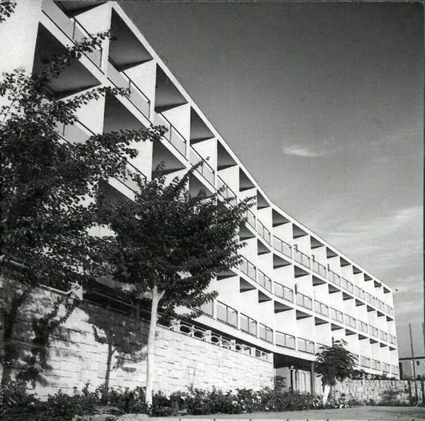 Brodetsky House immigrant dormitory in Ramat Aviv